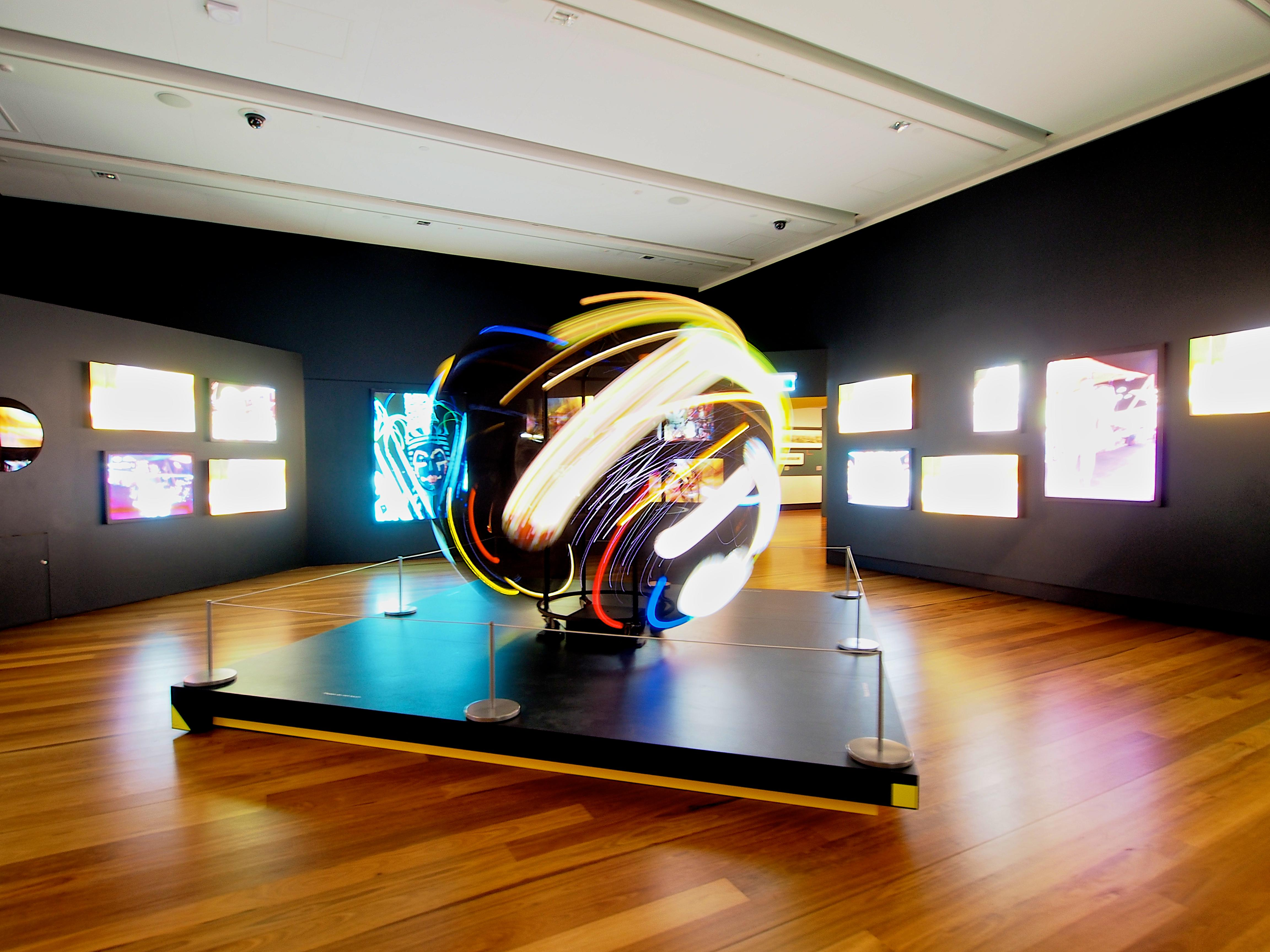 Expo 1988 display at the Museum of Brisbane HandHold 4 second 手持4秒